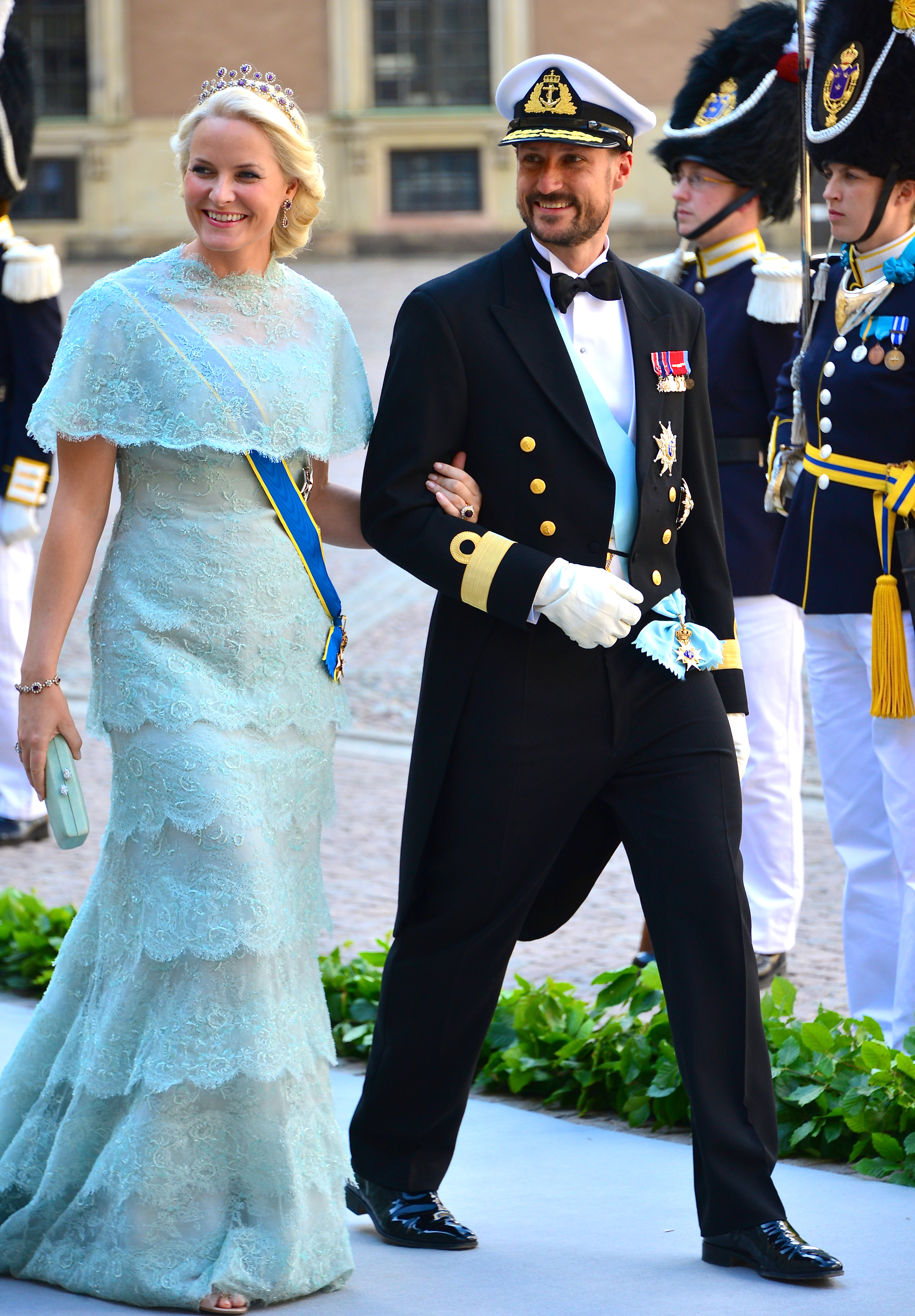 Haakon Magnus of Norway and Mette-Marit of Norway on the way to the castle church at the Royal Palace in Stockholm before the wedding between Princess Madeleine and Christopher O'Neill June 8, 2013.